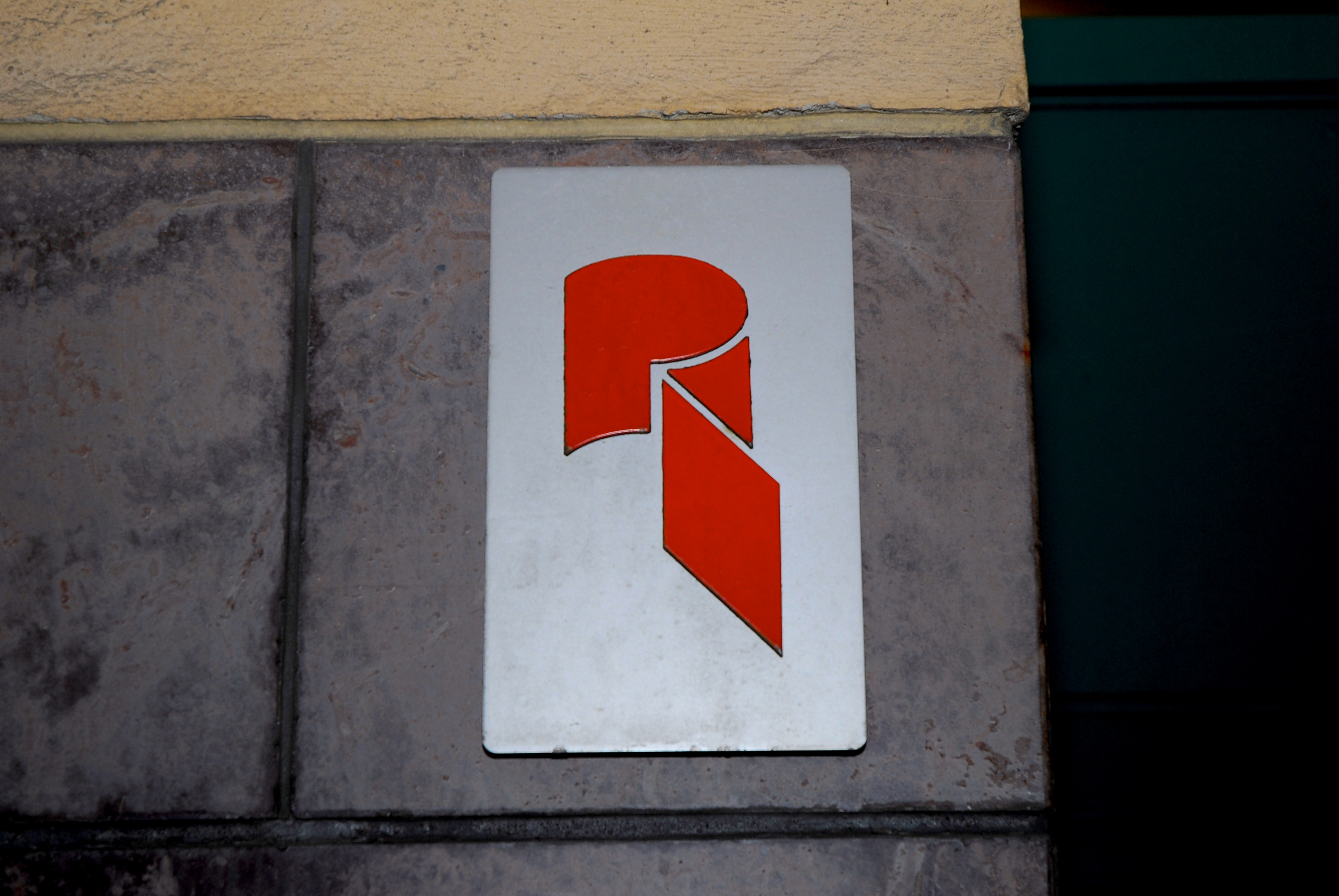 Image of logotype Riksbyggen